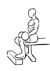 an exercise of calf